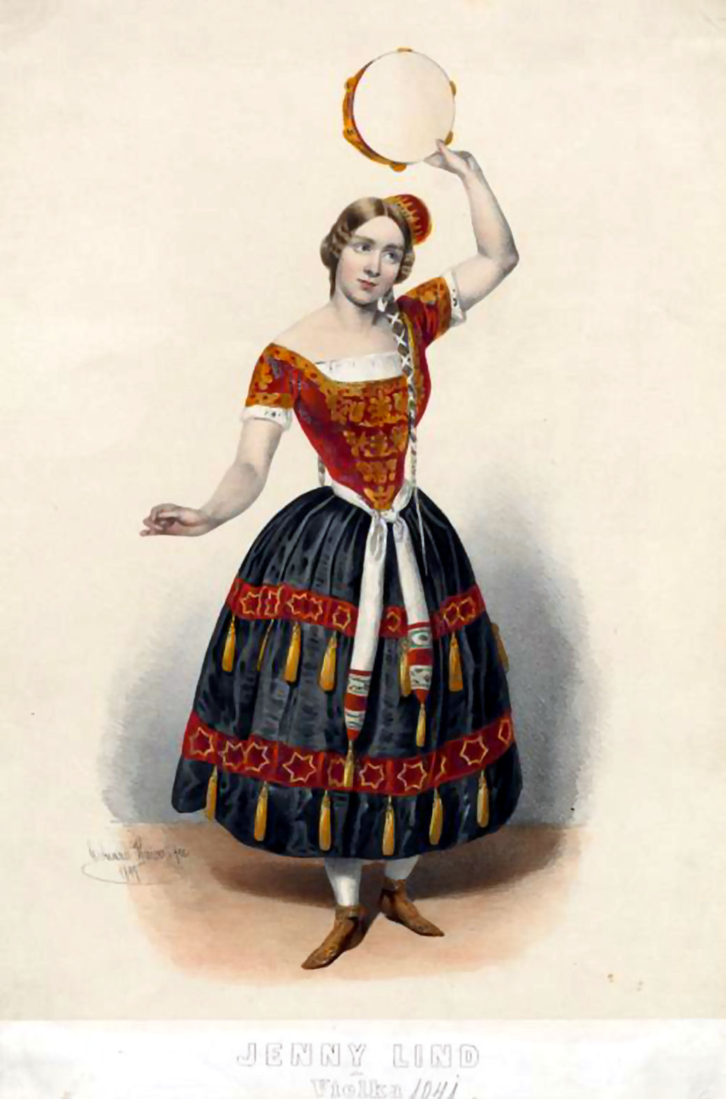 Jenny Lind as Vielka, in Meyerbeer's opera (1847)